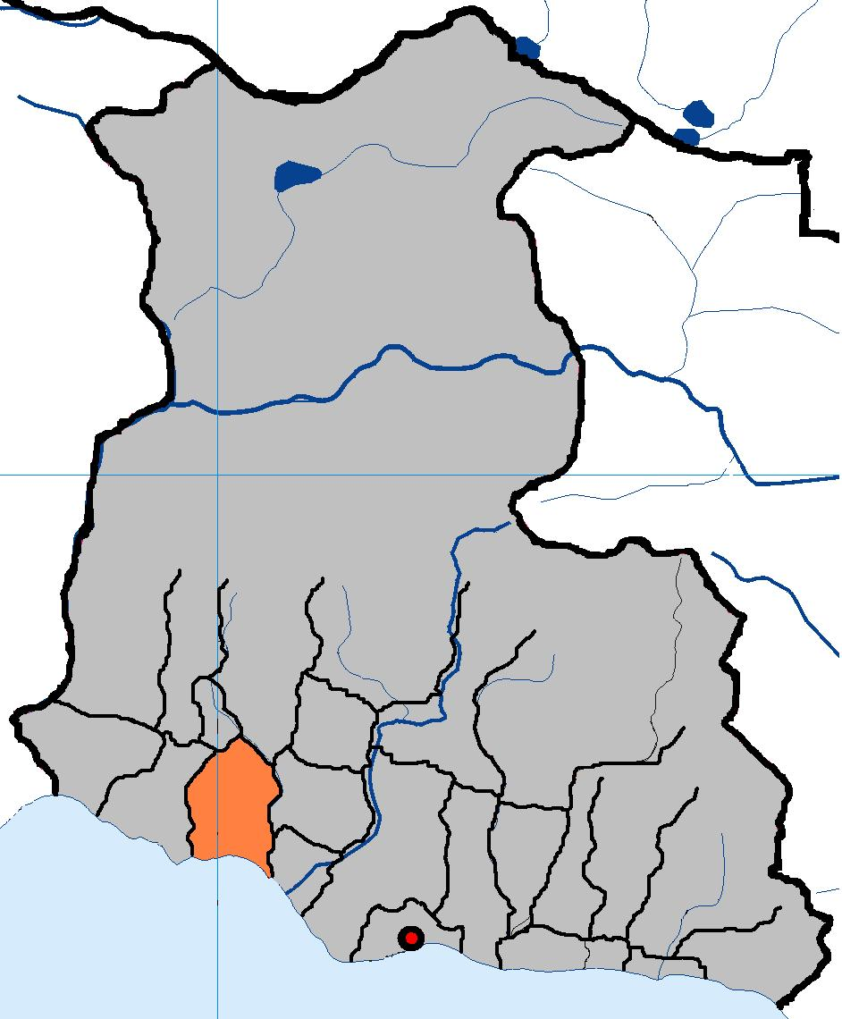 Map showing the location of the village Mgudzyrkhua in Abkhazia.